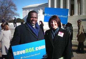 Rep. Albert Wynn (left) joins Gloria Feldt (right), President of the Planned Parenthood Federation of America, on the steps of the Supreme Court, to rally in support of the pro-choice movement on the Anniversary of Roe v. Wade